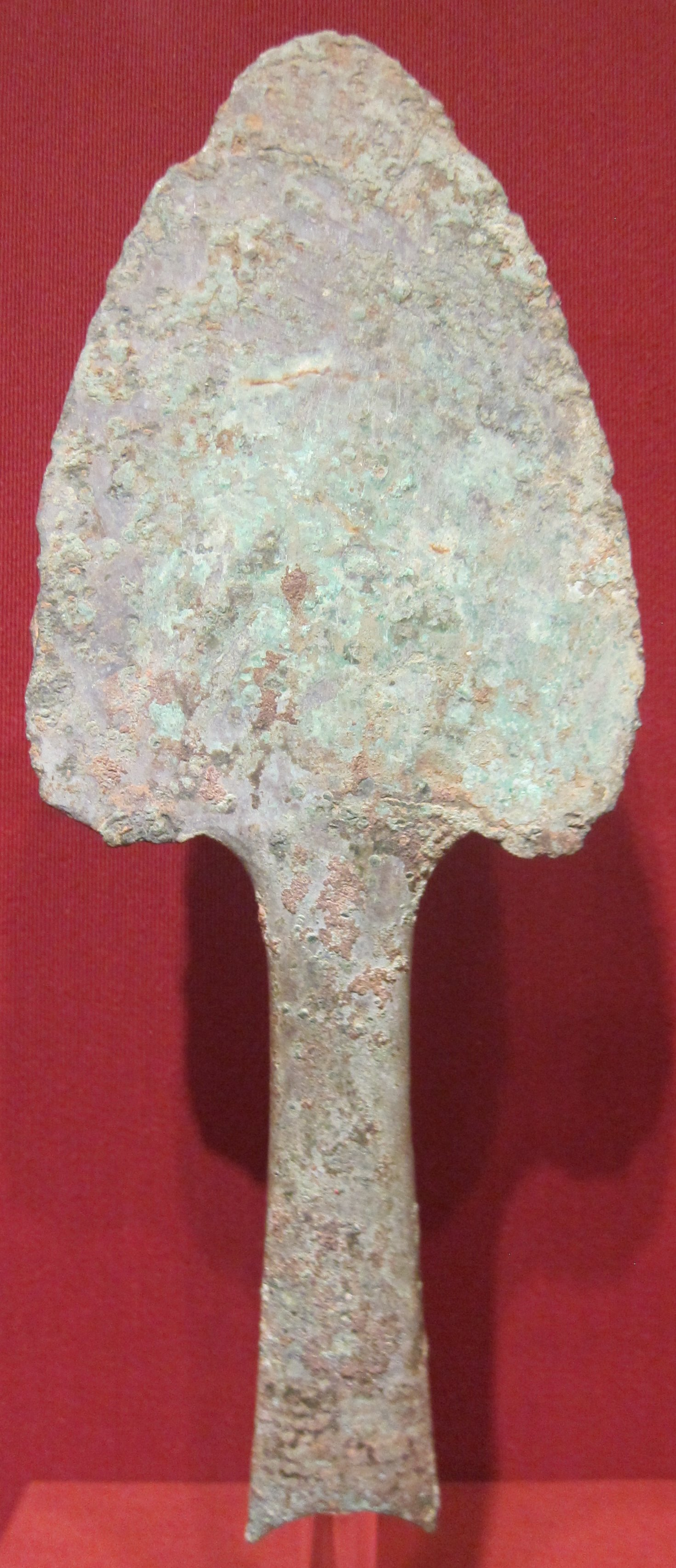 Leaf-shaped hoe from Indonesia, 300-100 BCE, bronze, Honolulu Museum of Art